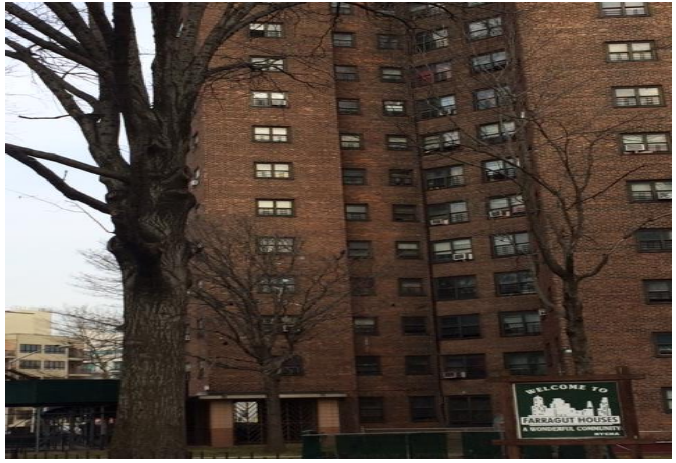 Front view of the sign of Farragut Houses